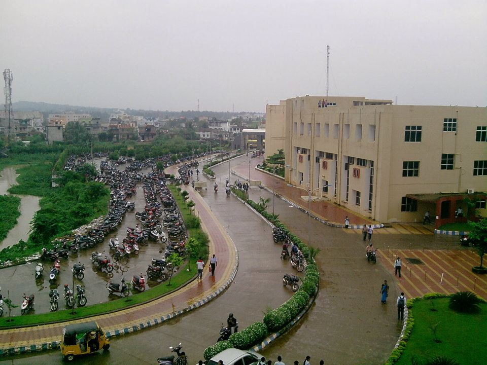 iter college 2